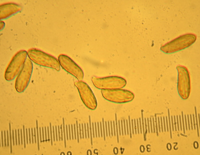 Spores of the coral mushroom Ramaria botrytis (Pers.) Ricken. Specimen from which the spores were collected originated from Salt Point State Park, Sonoma Co., California, USA.